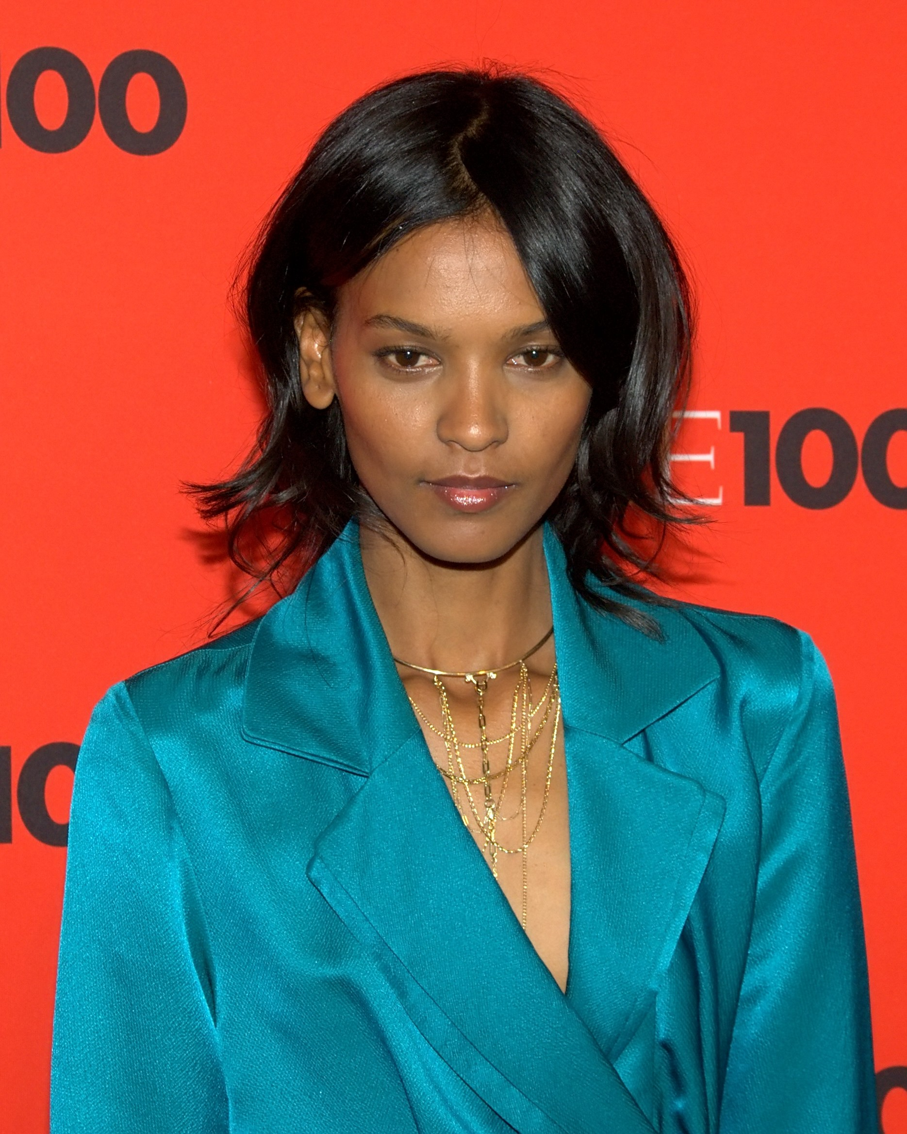 Liya Kebede at the 2010 Time 100 Gala.